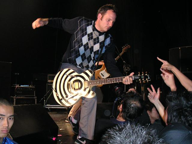 Parry Gripp in Japan